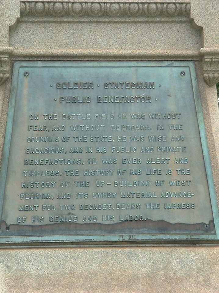 The William Dudley Chipley epitaph at Plaza Ferdinand VII in Pensacola, Florida.